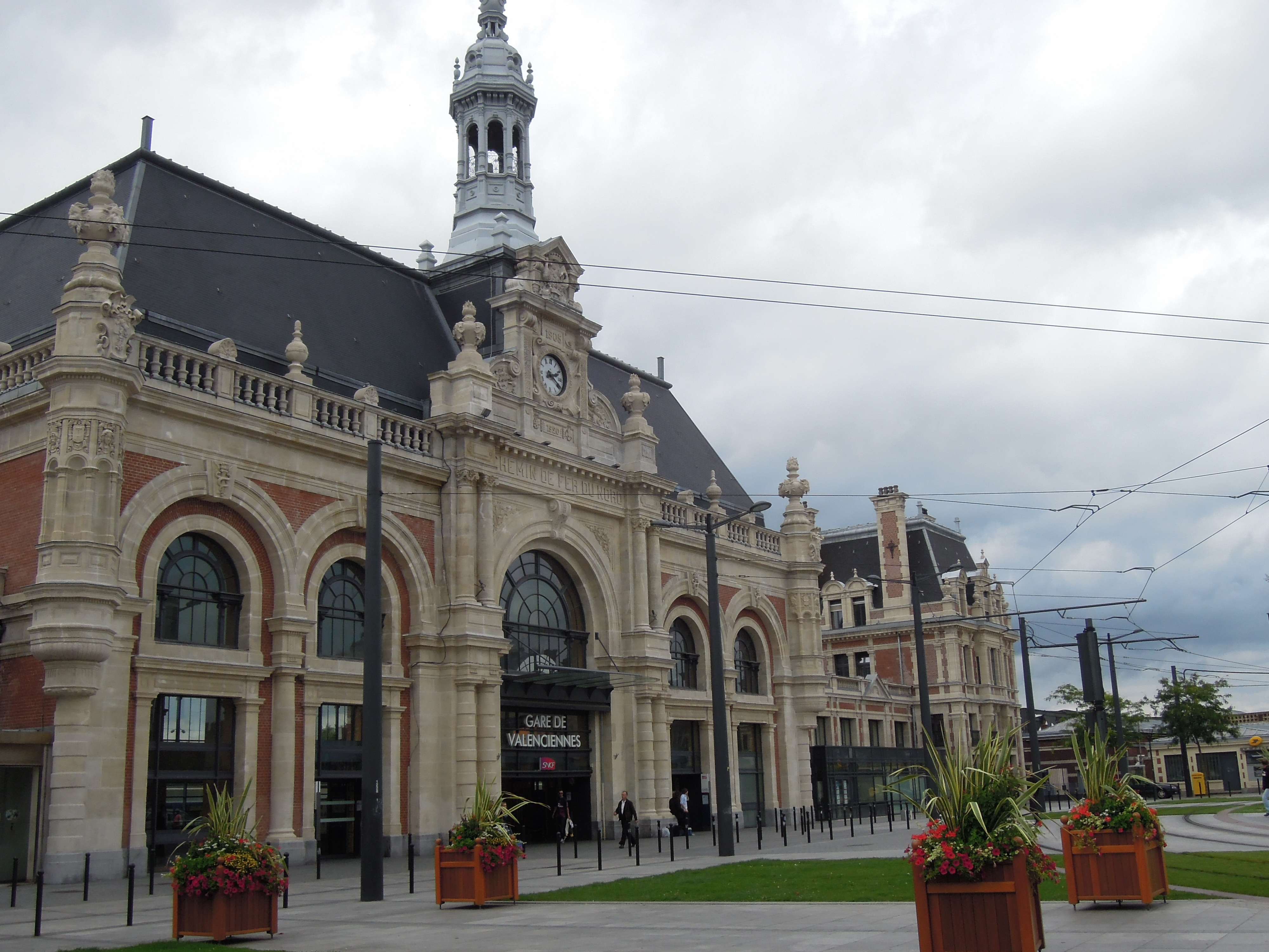 Valenciennes train station